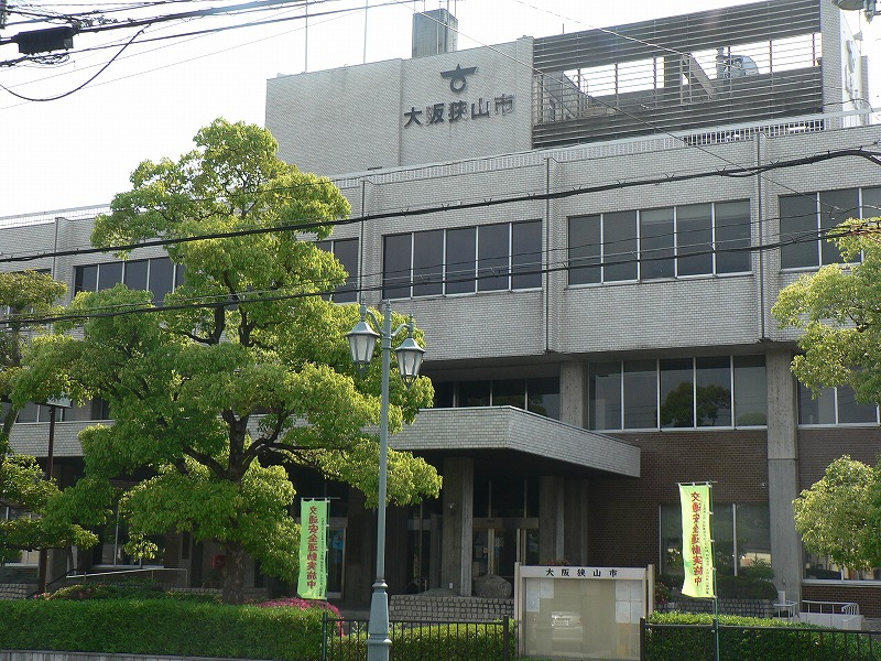 Osakasayama city office （大阪狭山市役所）